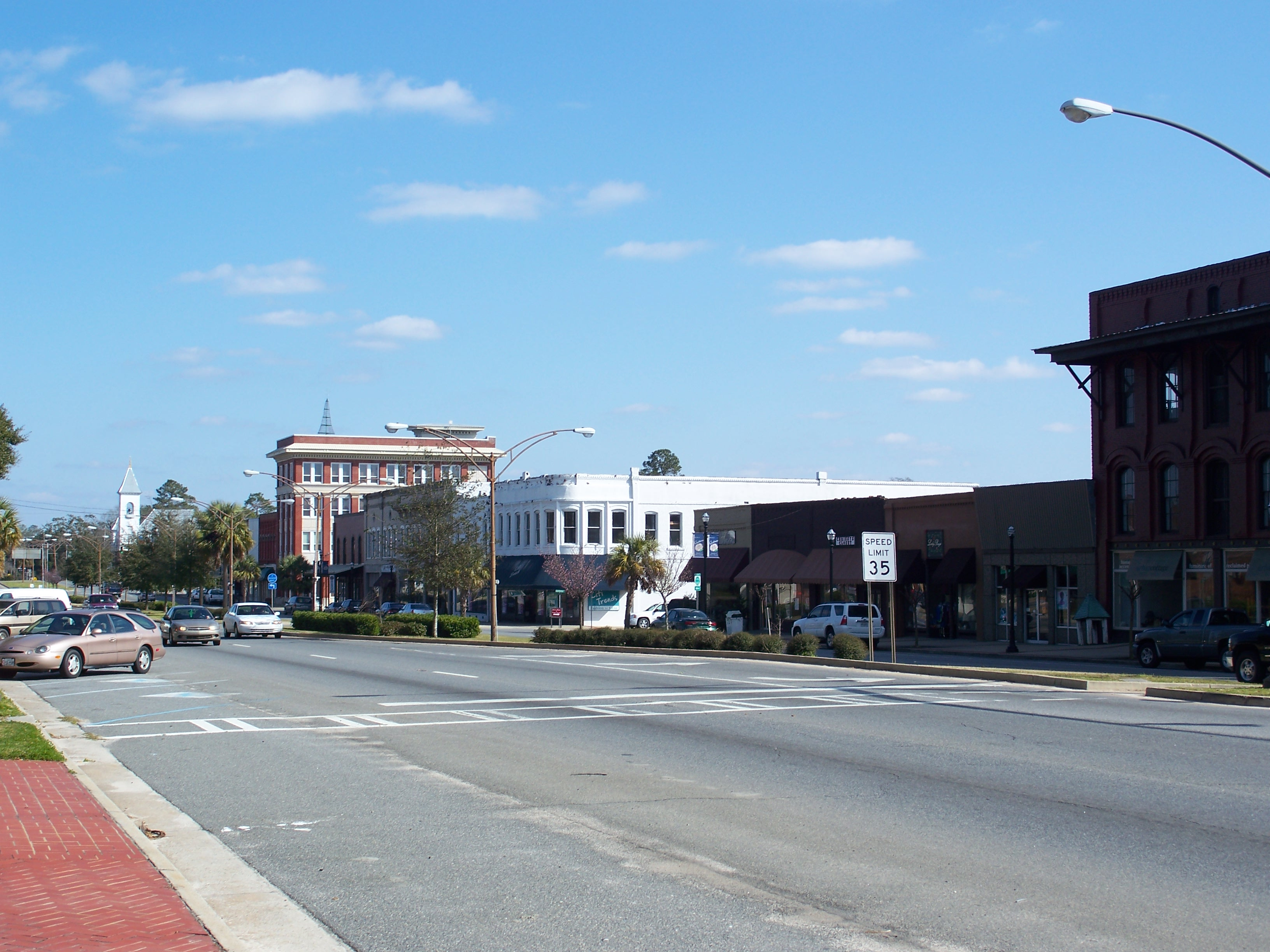 Quitman, Georgia: Quitman Historic District: Building on US 84